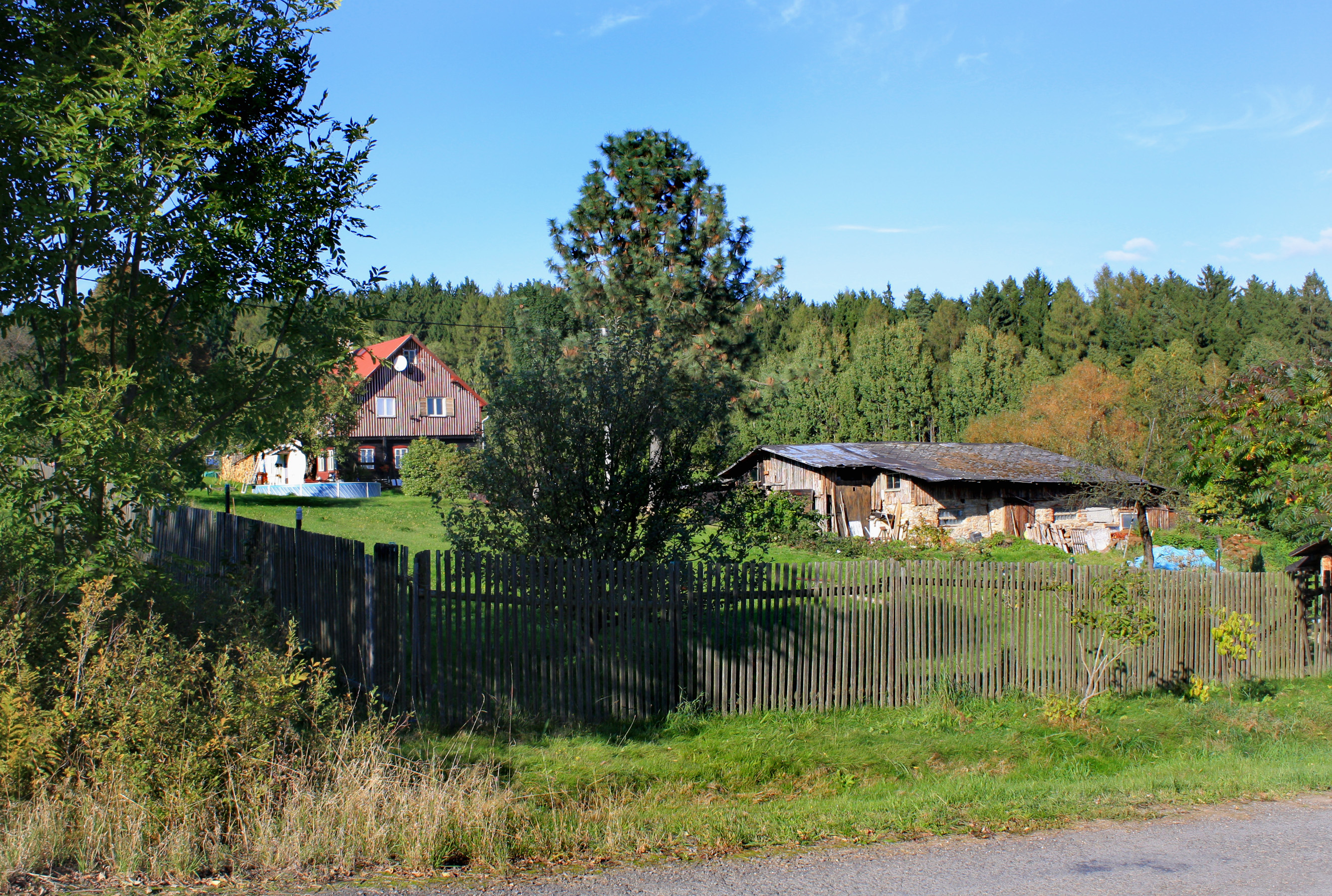 Růžek, part of Nová Ves, Czech Republic